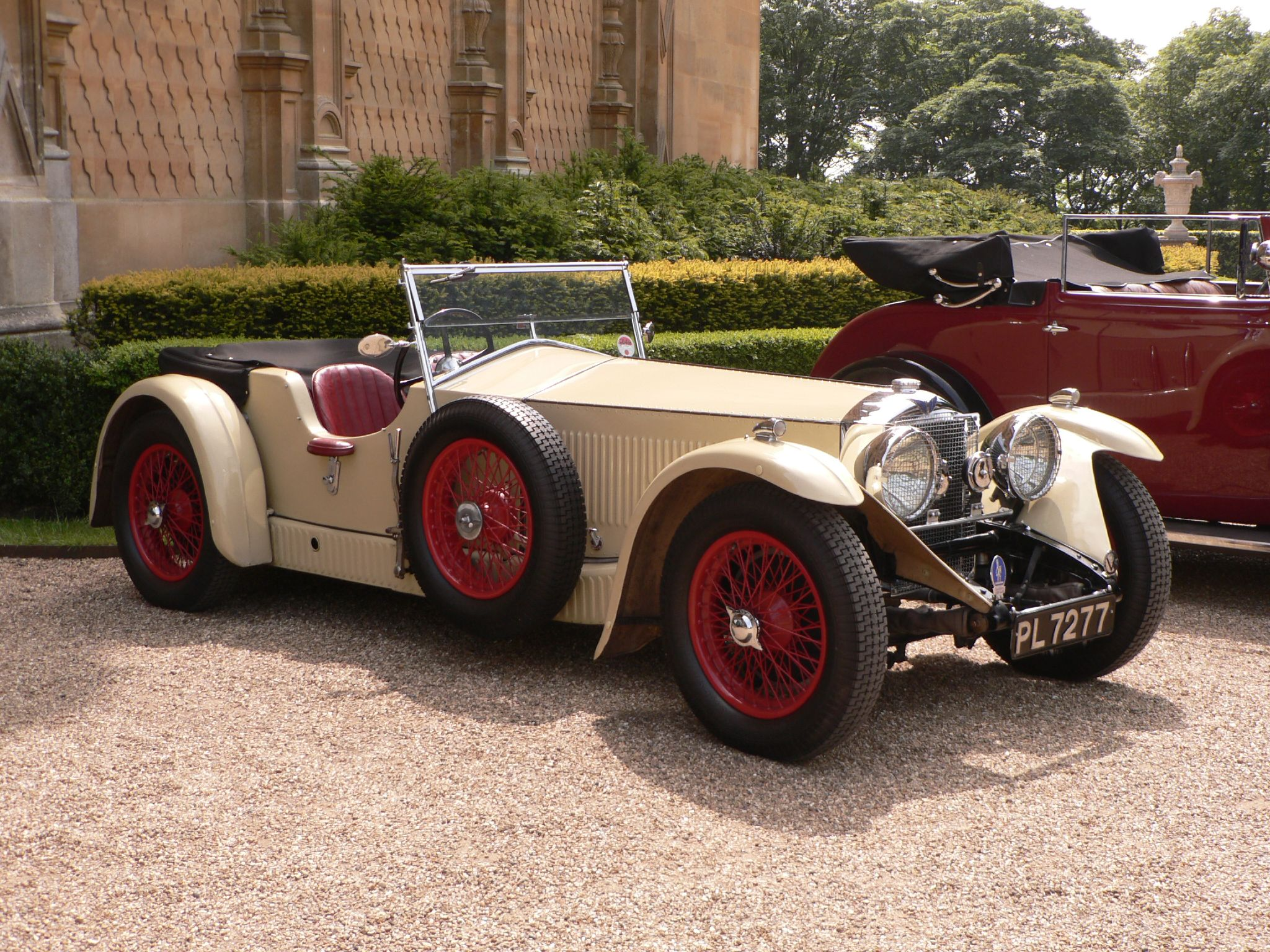 Invicta open two-seater (DVLA) first registered 21 April 1931, 4410cc